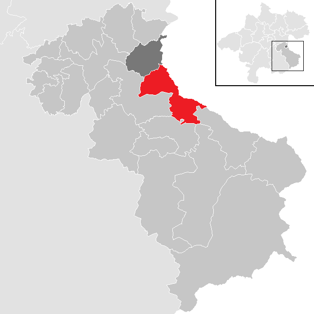 district Steyr-Land